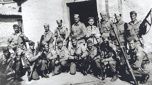 Greek operation group II of OSS in Greece,1944